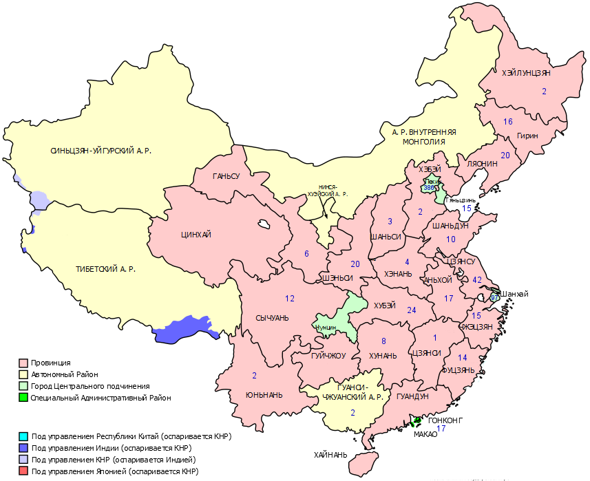 Distribution of full members of Chinese Academy of Sciences among provinces, autonomous and special regions and direct-controlled municipalities of PRC